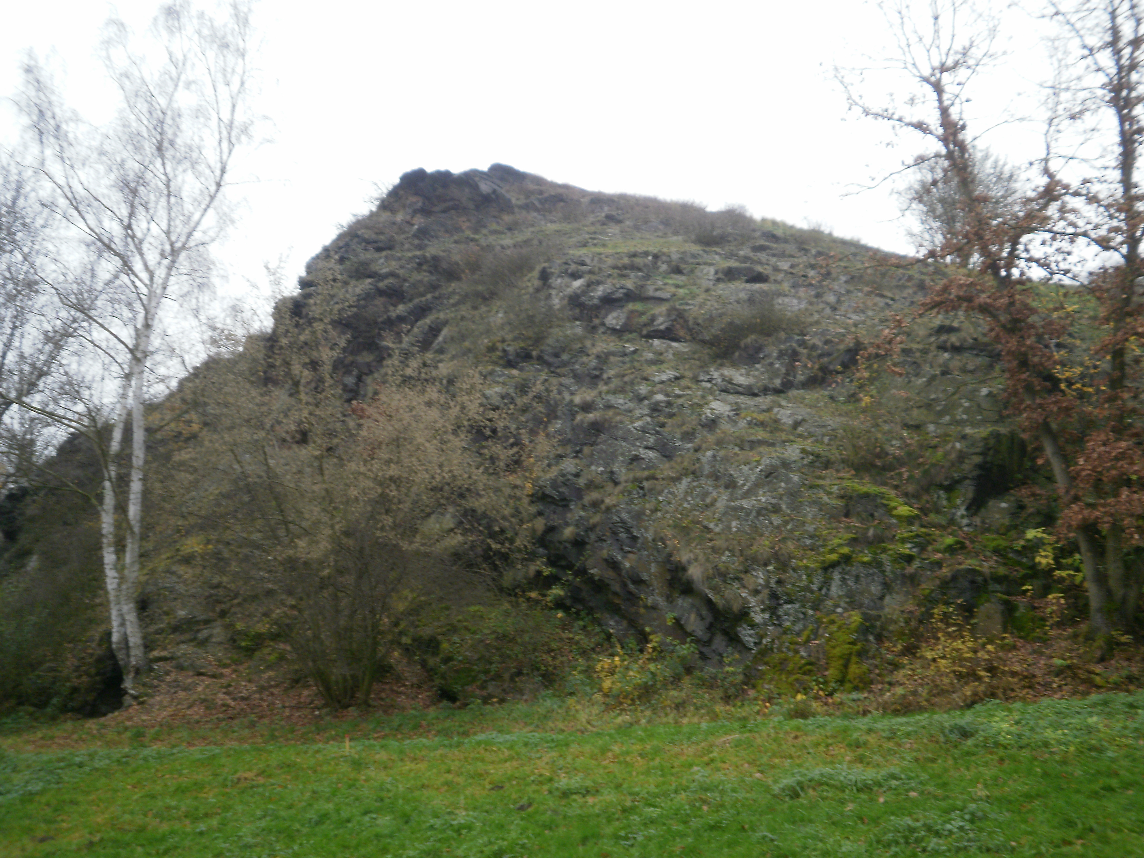 Natural monument Jenerálka in Prague, Czech Republic